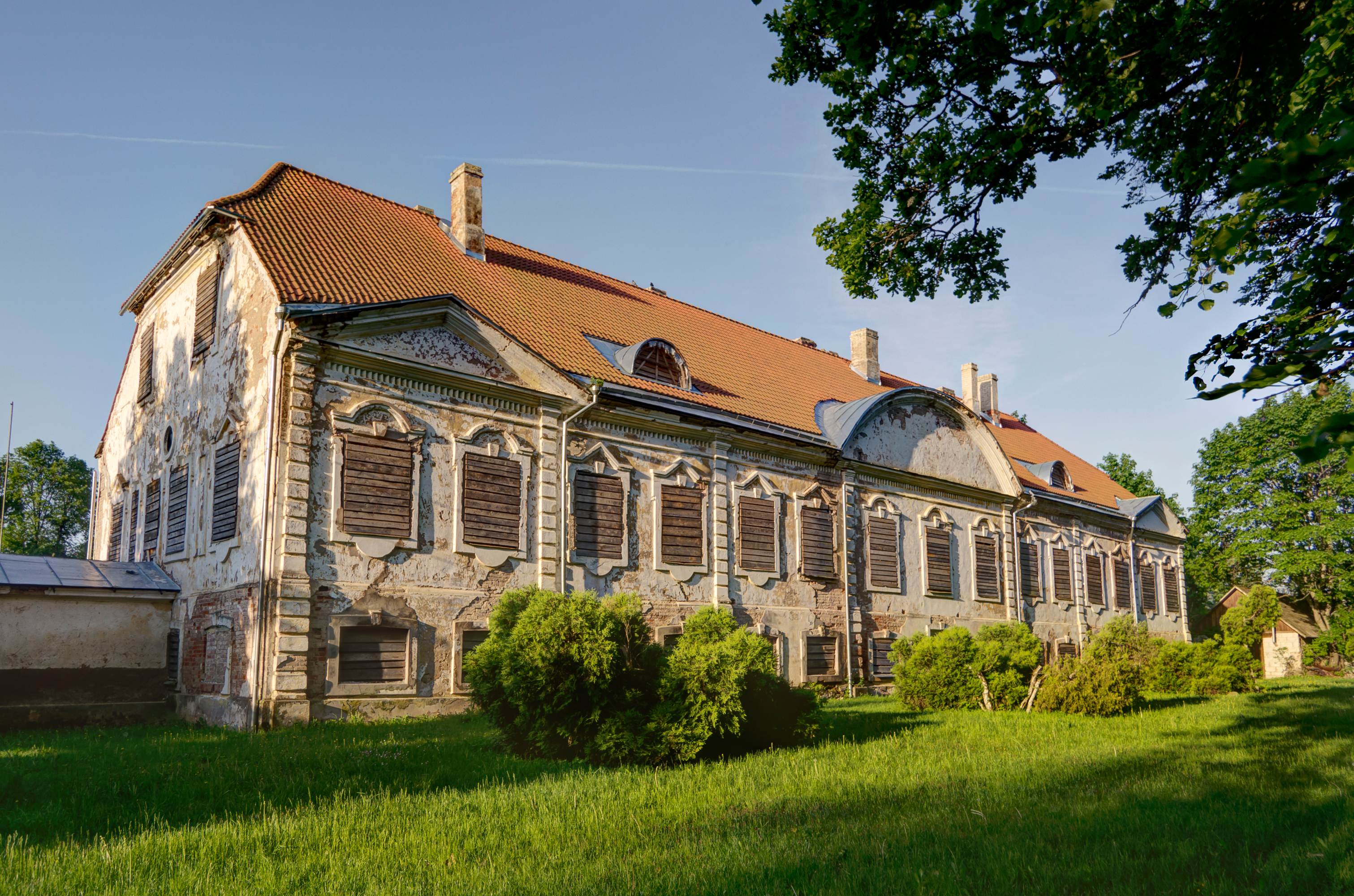 Backside view of Ahja manor